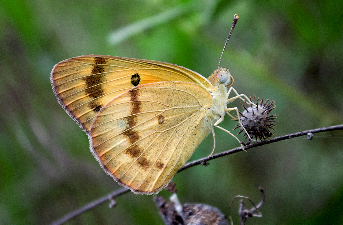 taken at hingolgadh, rajkot